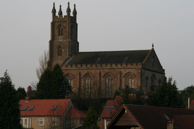 Clackmannan Parish Church Clackmannan Parish Church standing proudly on its hill.